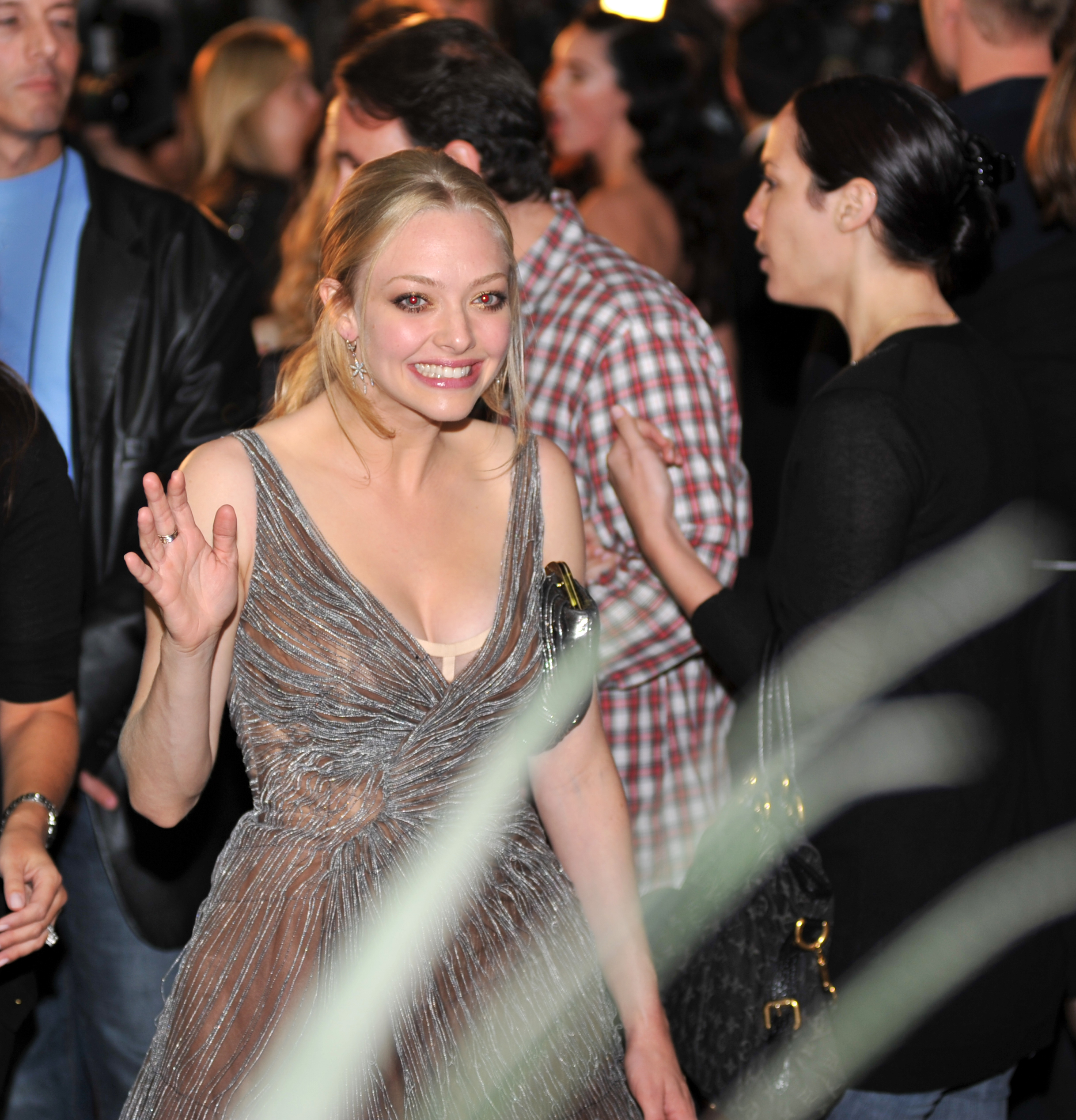 Amanda Seyfried @ Jennifer's Body screening